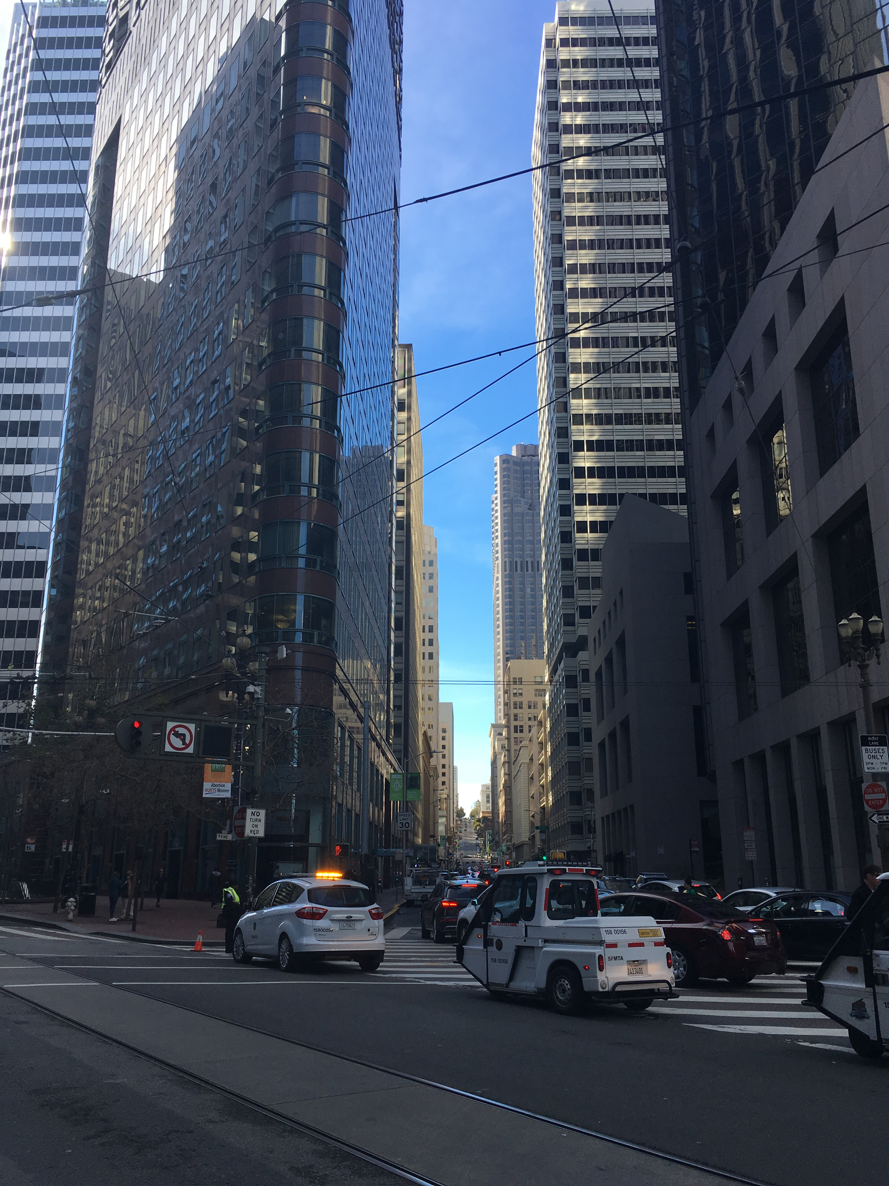 Photo of Pine Street taken from Market Street. Traffic rerouted from Market Street due to March for Life.